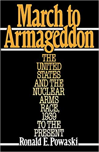 Ronald Powaski's first published work, March to Armageddon: the United States and the nuclear arms race, 1939 to the present.